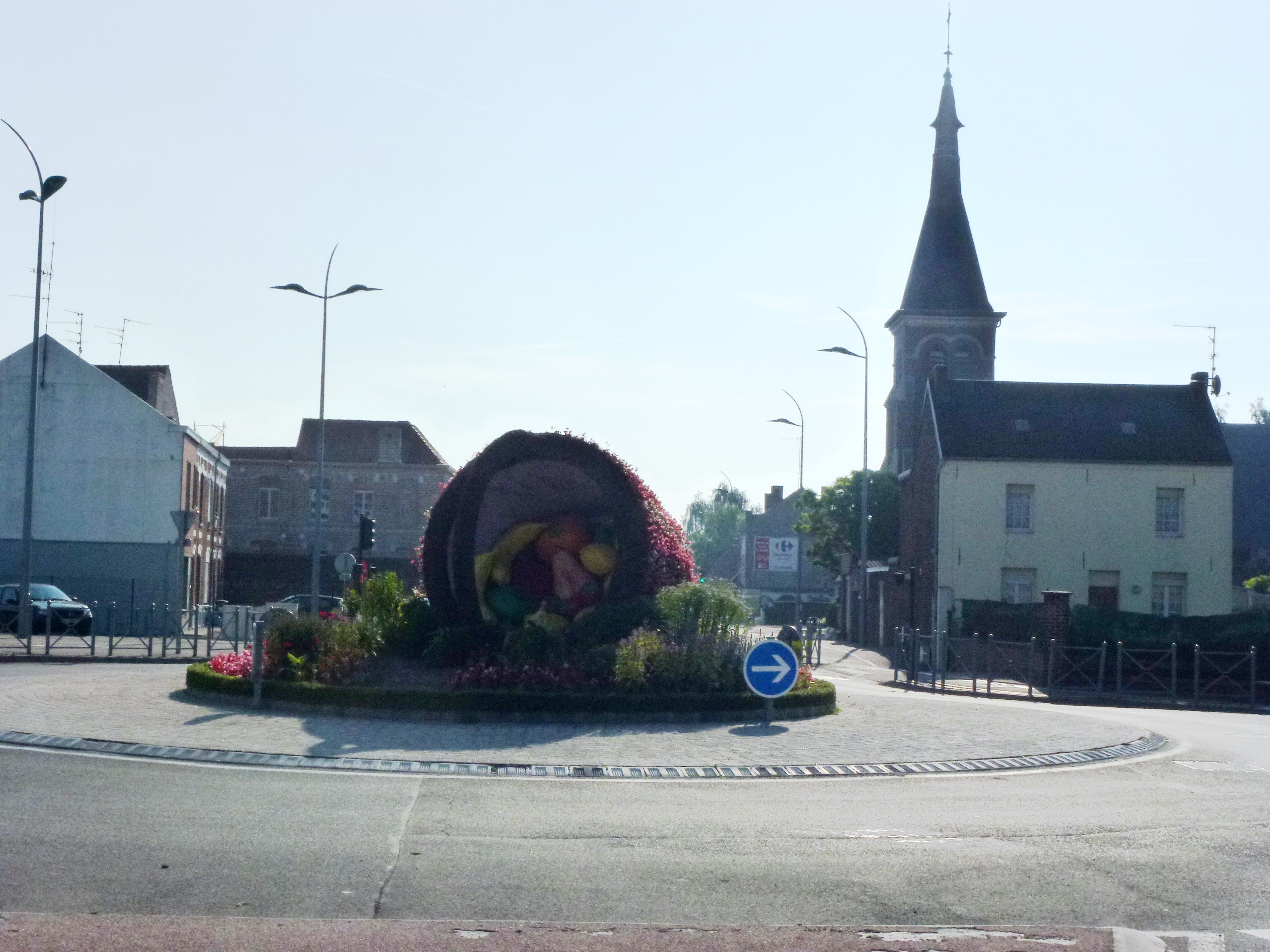 Saint-Amand-les-Eaux (Nord, Fr) Rond-point au Moulin-Blanc